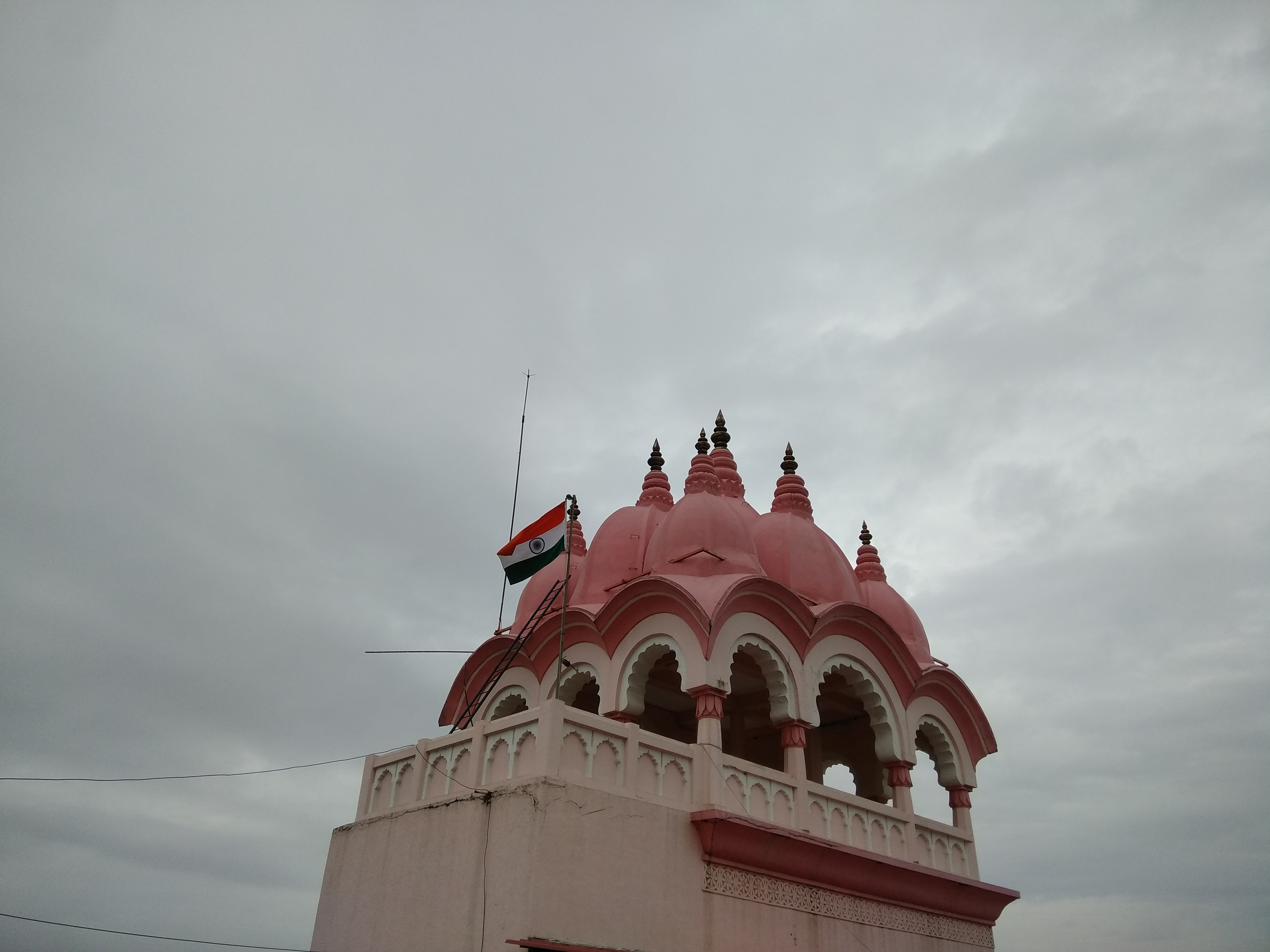 Jnana Prabodhini Pune Building